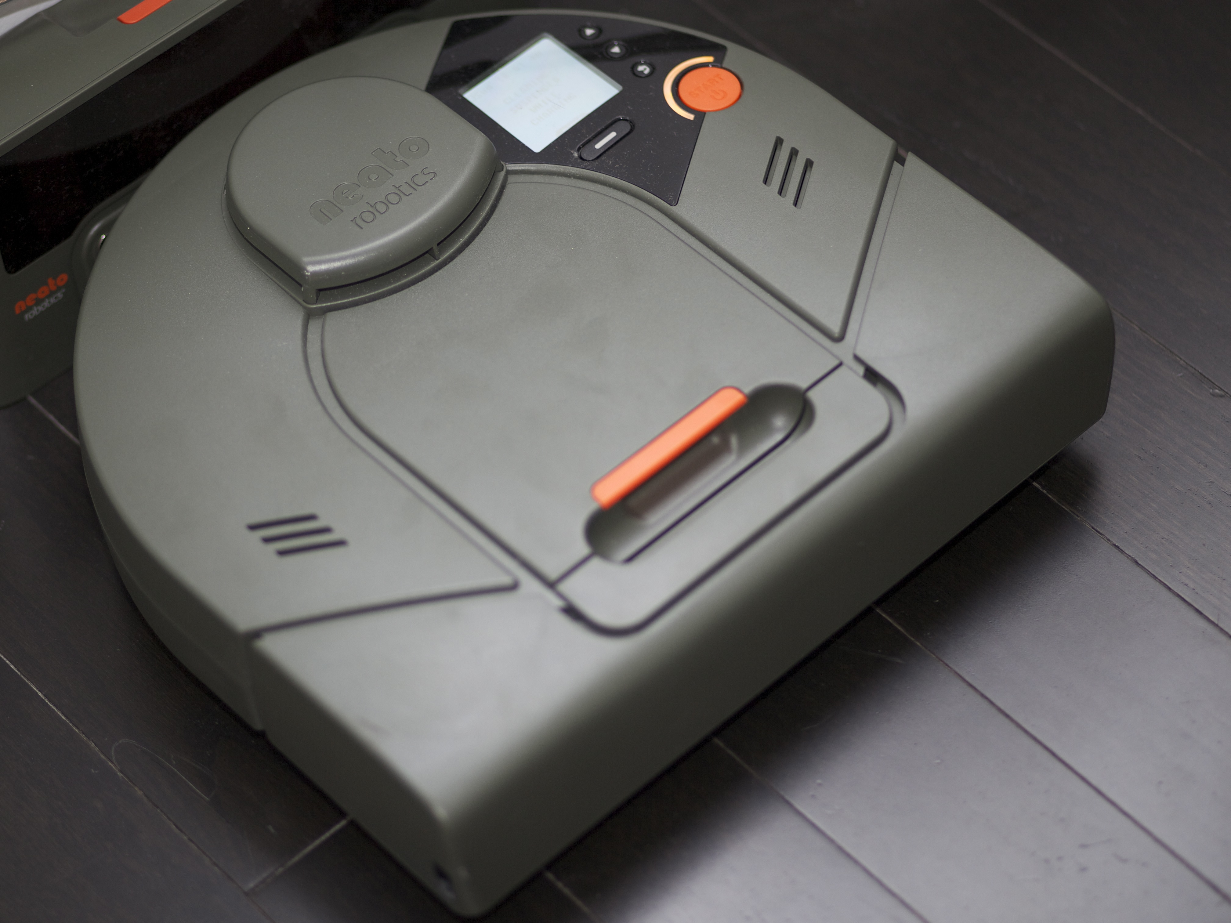 Neato Robotics XV-11 robotic vacuum cleaner